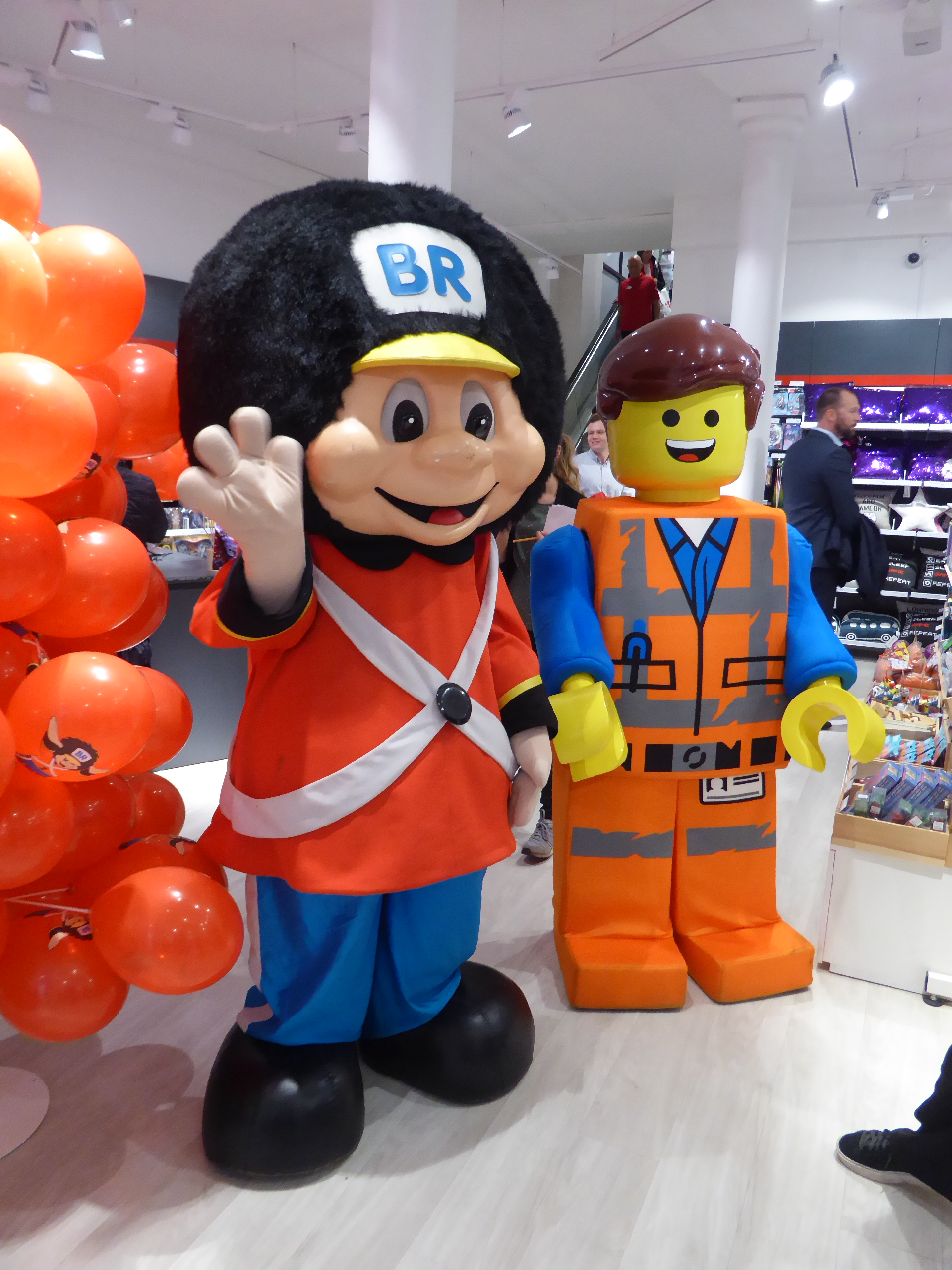 The Danish toy chain BR was closed after a bankrupt at the end of 2018 but it got new owner and was able to reopen in the spring of 2019. The shop at Vimmelskaftet in Copenhagen was the first to reopen. The mascot Fætter BR and Emmet of The Lego Movie.